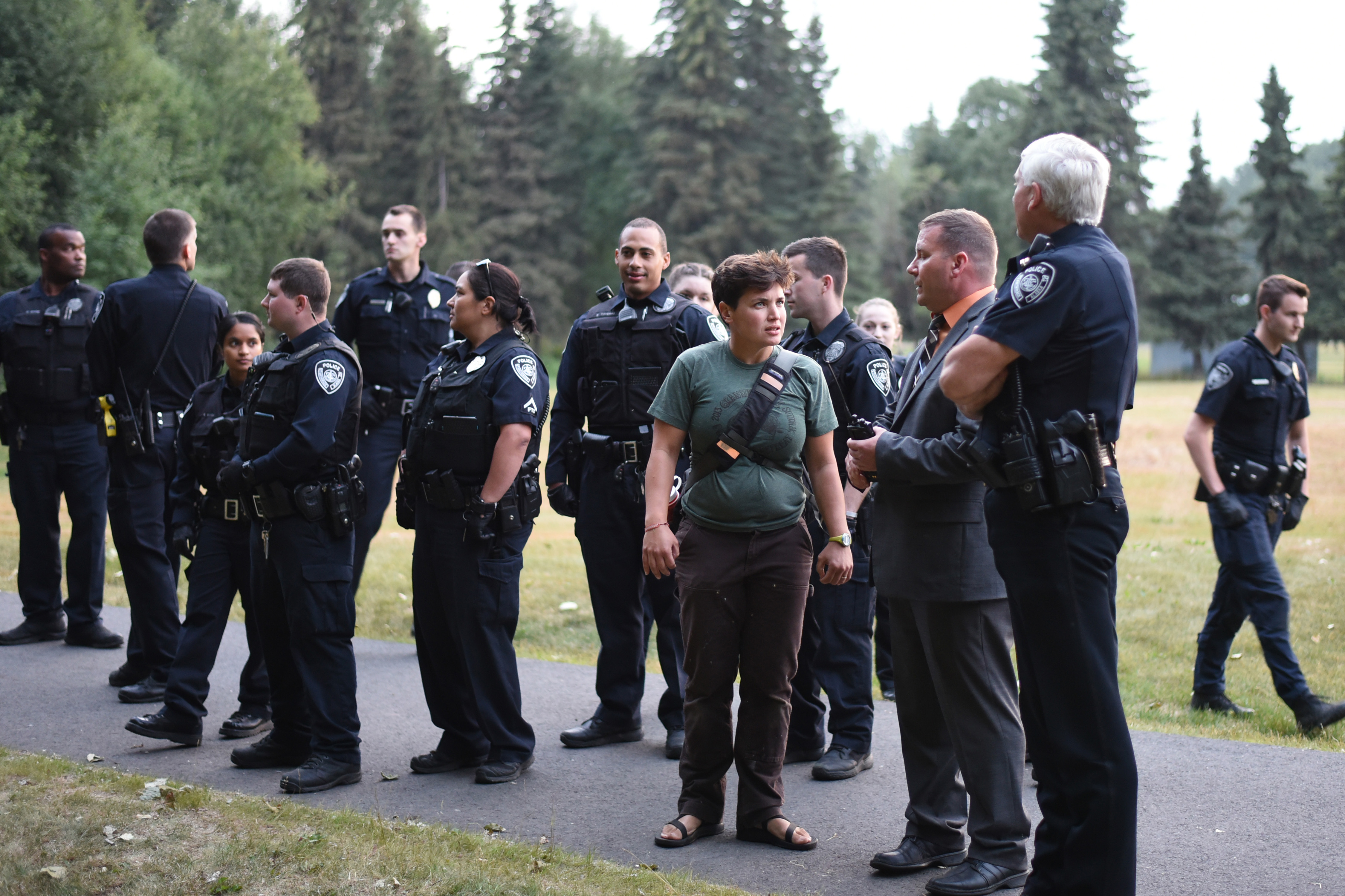 "Camp Here: Occupy to Overcome" was a July 2019 protest event organized as a "peaceful movement to create safe spaces for our community of the Homeless and Houseless." The Anchorage Police Department ejected the event from both the Delaney Park Strip and the public park at Westchester Lagoon, and it eventually relocated to the woods adjacent to Valley of the Moon Park. This photo is provided under a Creative Commons Attribution license. Please provide the following credit: "Photo used under Creative Commons license courtesy Paxson Woelber, The Alaska Landmine"